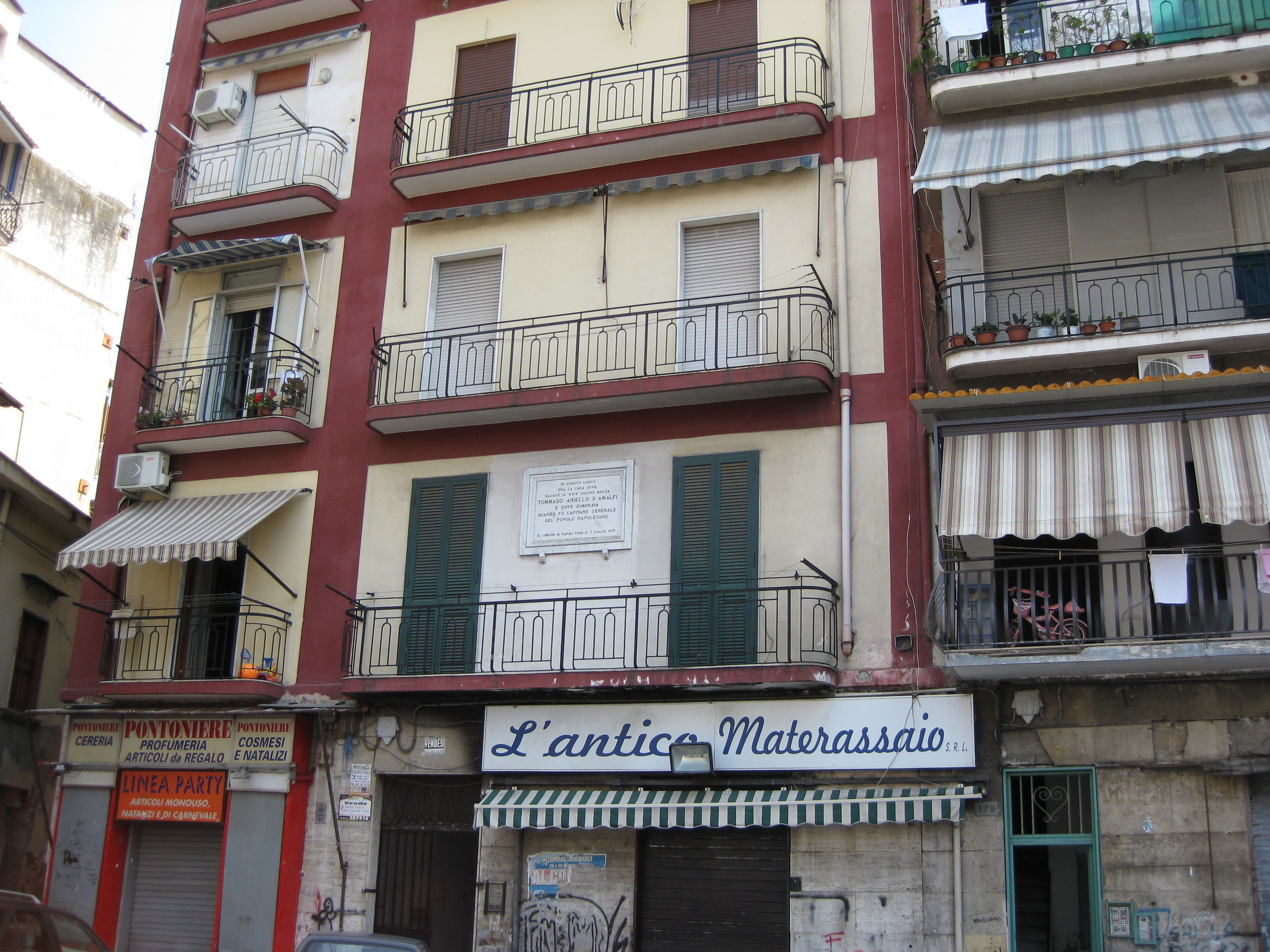 The house of Vico Rotto al Mercato (Naples) where Masaniello was born and lived.